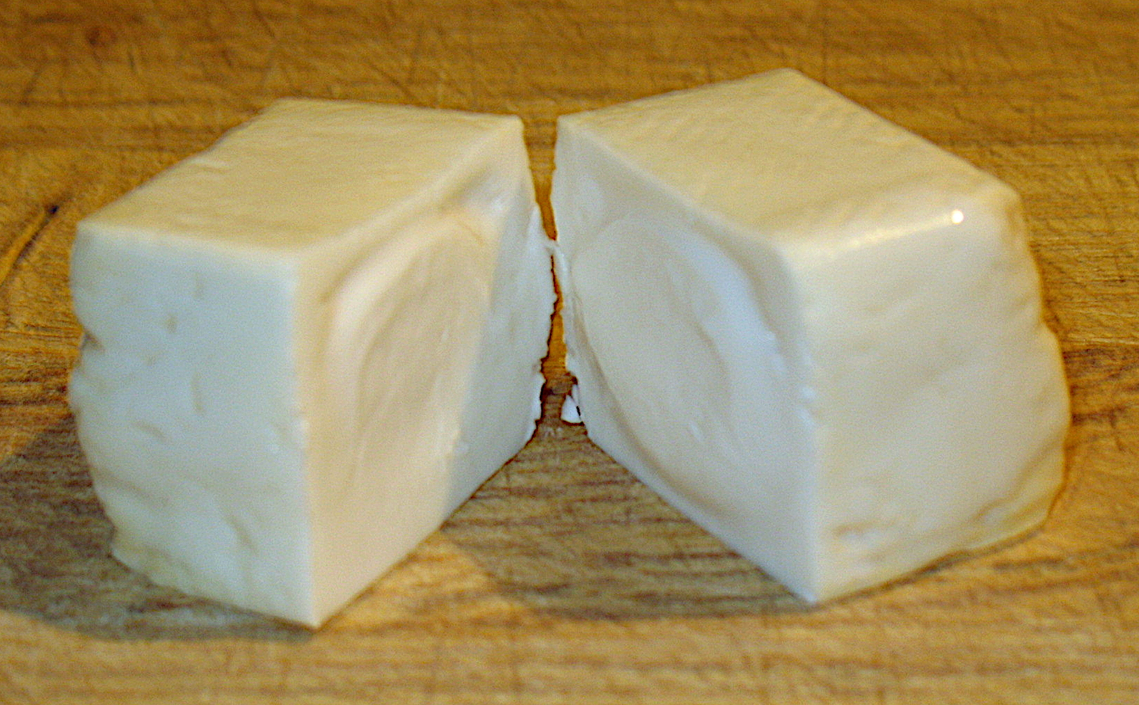 Hungarian Palpusztai cheese unwrapped